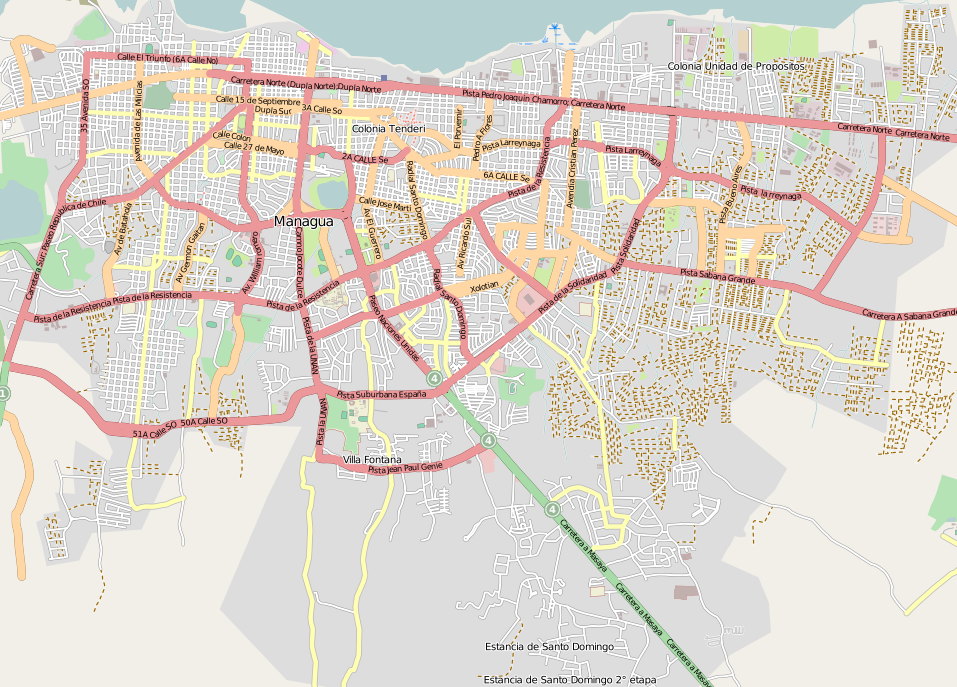 This map of Area metropolitana de Managua was created from OpenStreetMap project data, collected by the community. This map may be incomplete, and may contain errors. Don't rely solely on it for navigation.